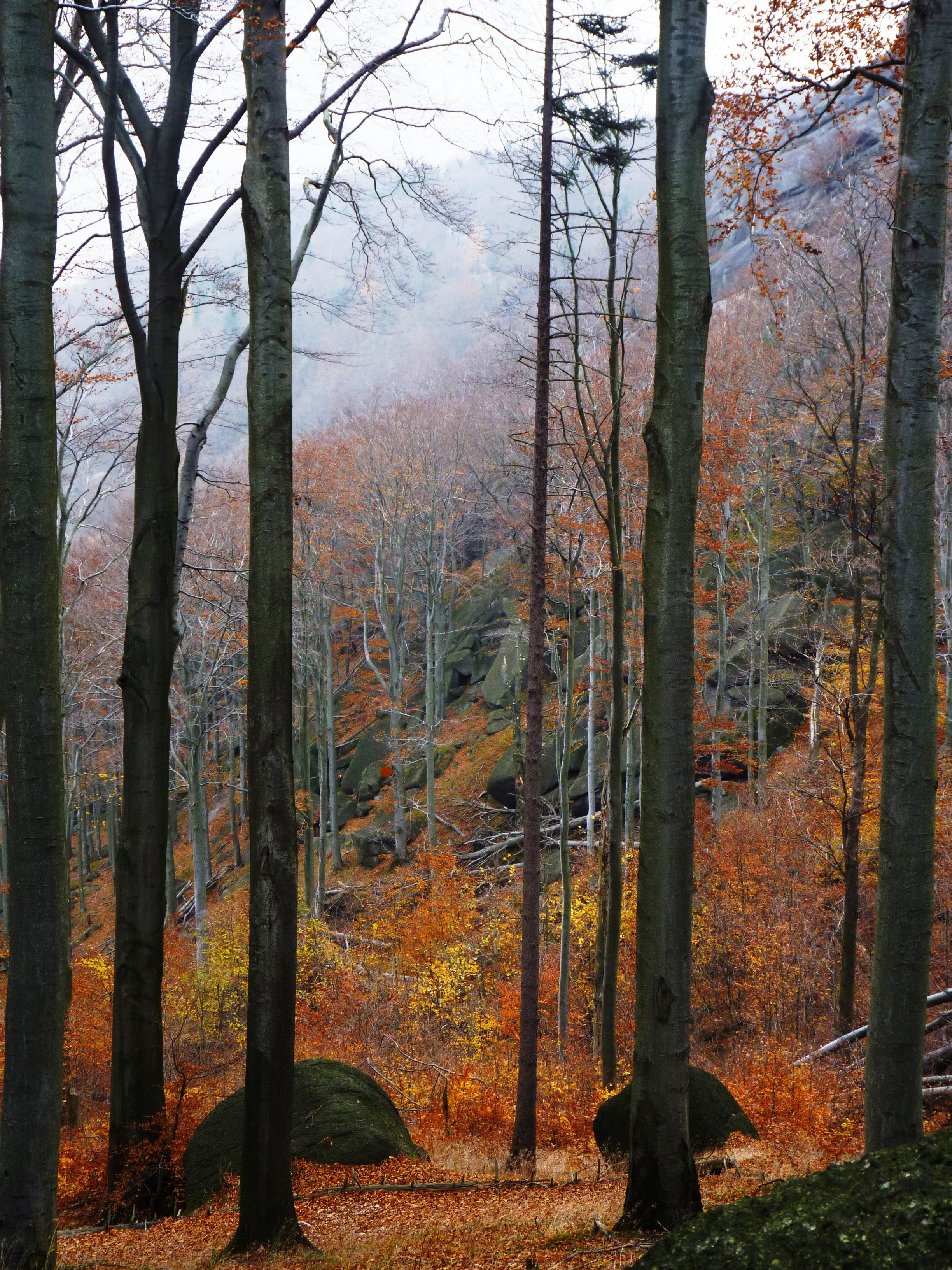 Jizerskohorské bučiny